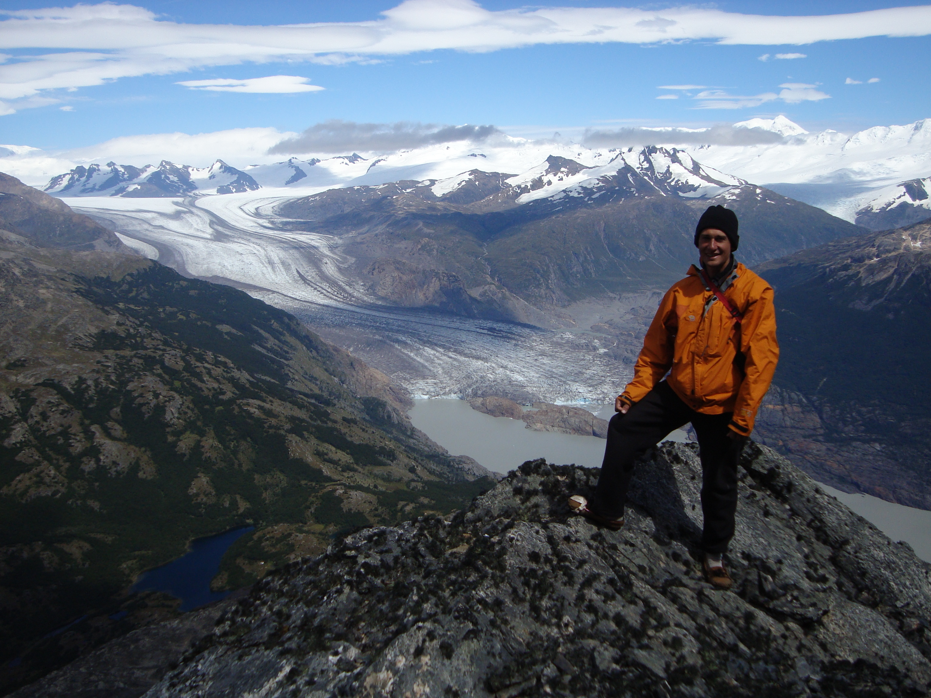 That's Glaciar Chico back there, snaking down from the great southern ice sheet. The views of the ice and the lichens were both incredible on this gentle little mountain. It made a nice little day trip from Lago Diablo (visible at the bottom left).